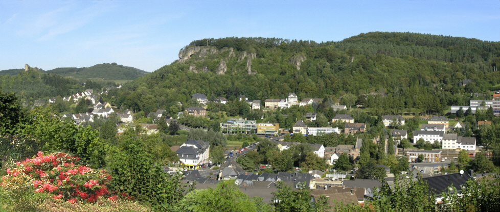 View over town of Gerolstein, Rhineland-Palatinate, Germany, heading north. Above the town there are the dolomite cliffs Auberg (the rather narrow stack to the left) and Munterley (dominating the picture). Between these two, farther in the background, there is the Rother Kopf, a basalt knoll.